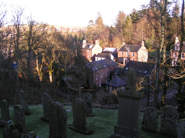 Auchenblae, Aberdeenshire, view from the church